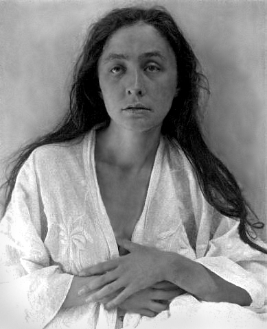 Photo portrait of Georgia O'Keeffe by Alfred Stieglitz, 1918.